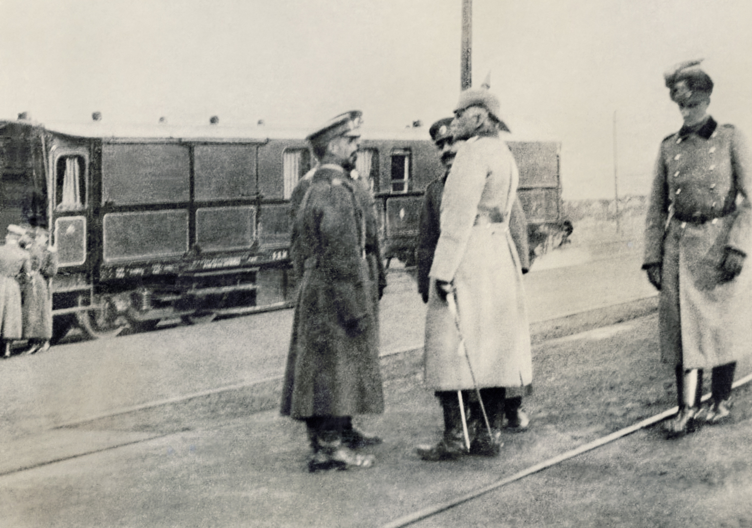 Field Marshal August von Mackensen with Bulgarian officers at the reception of the German Emperor Wilhelm II and the Bulgarian King Ferdinand I in Niš 1916